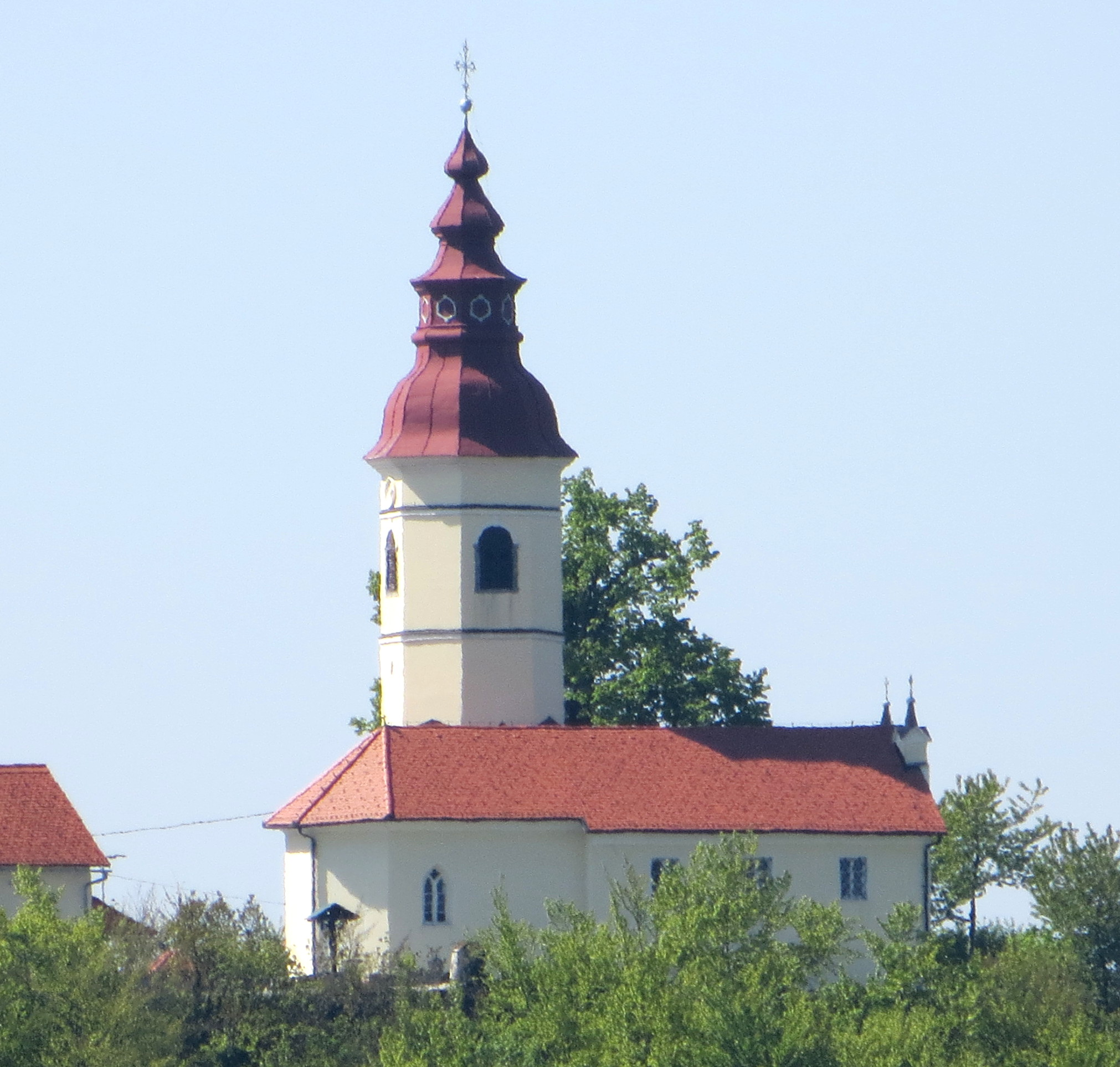 Nativity of Mary Church in Gradišče, Municipality of Šmartno pri Litiji, Slovenia